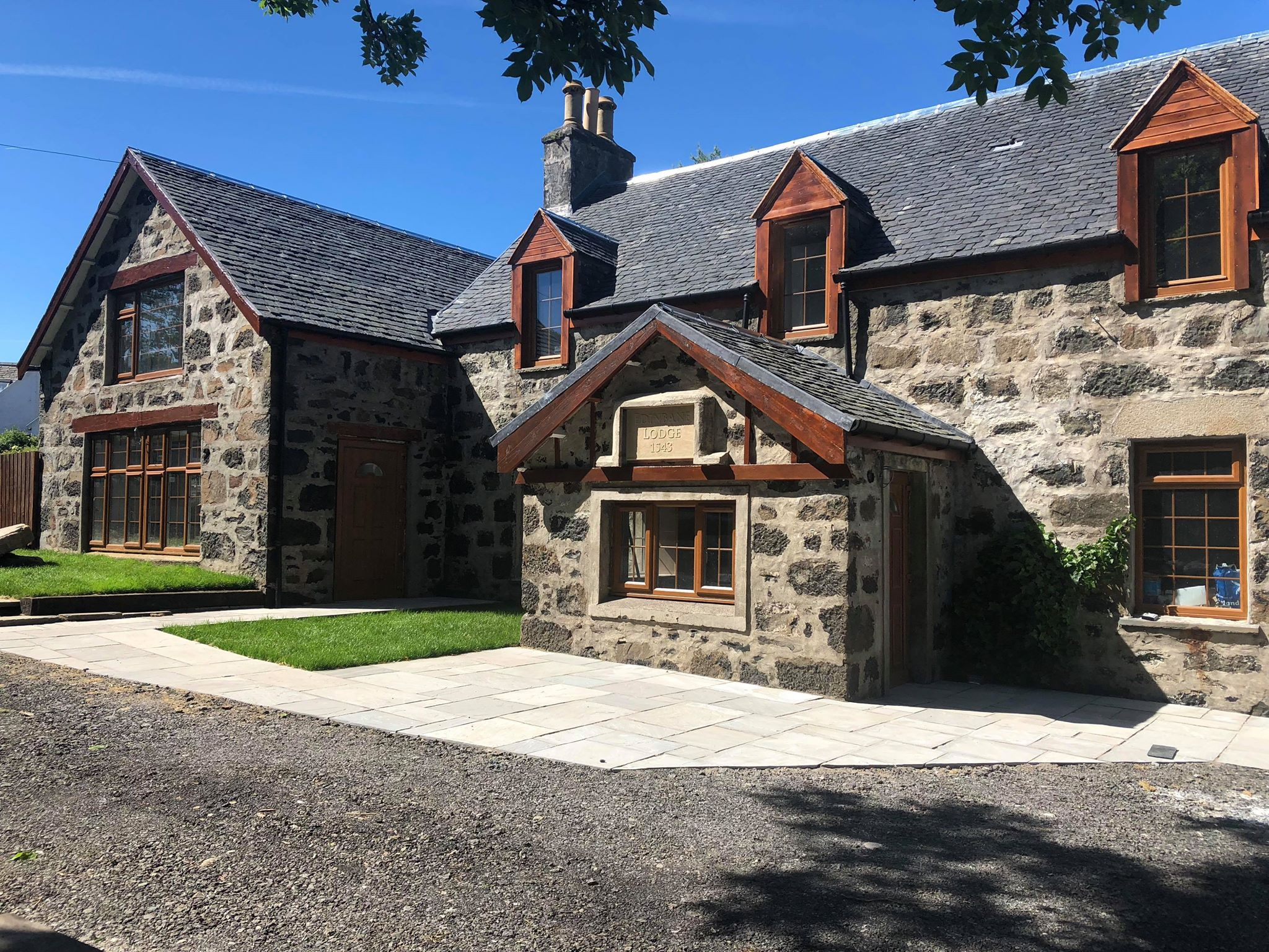 Built in 1543 Edinbane Lodge is a stone built hunting lodge that is situated in the village of Edinbane on the north west coast of the Isle of Skye